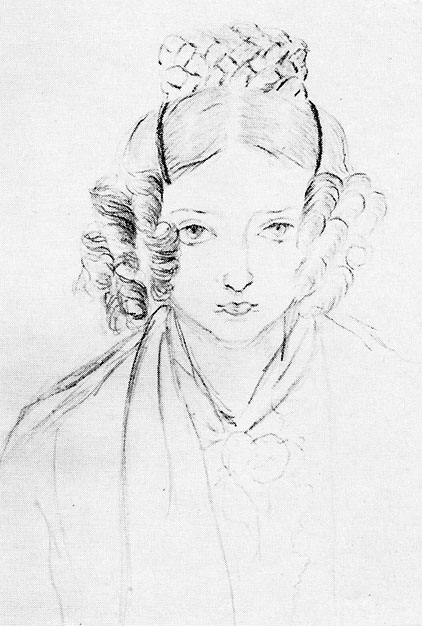 Self-portrait sketch by Princess Victoria of Kent (later Queen of the United Kingdom and Empress of India), 1835